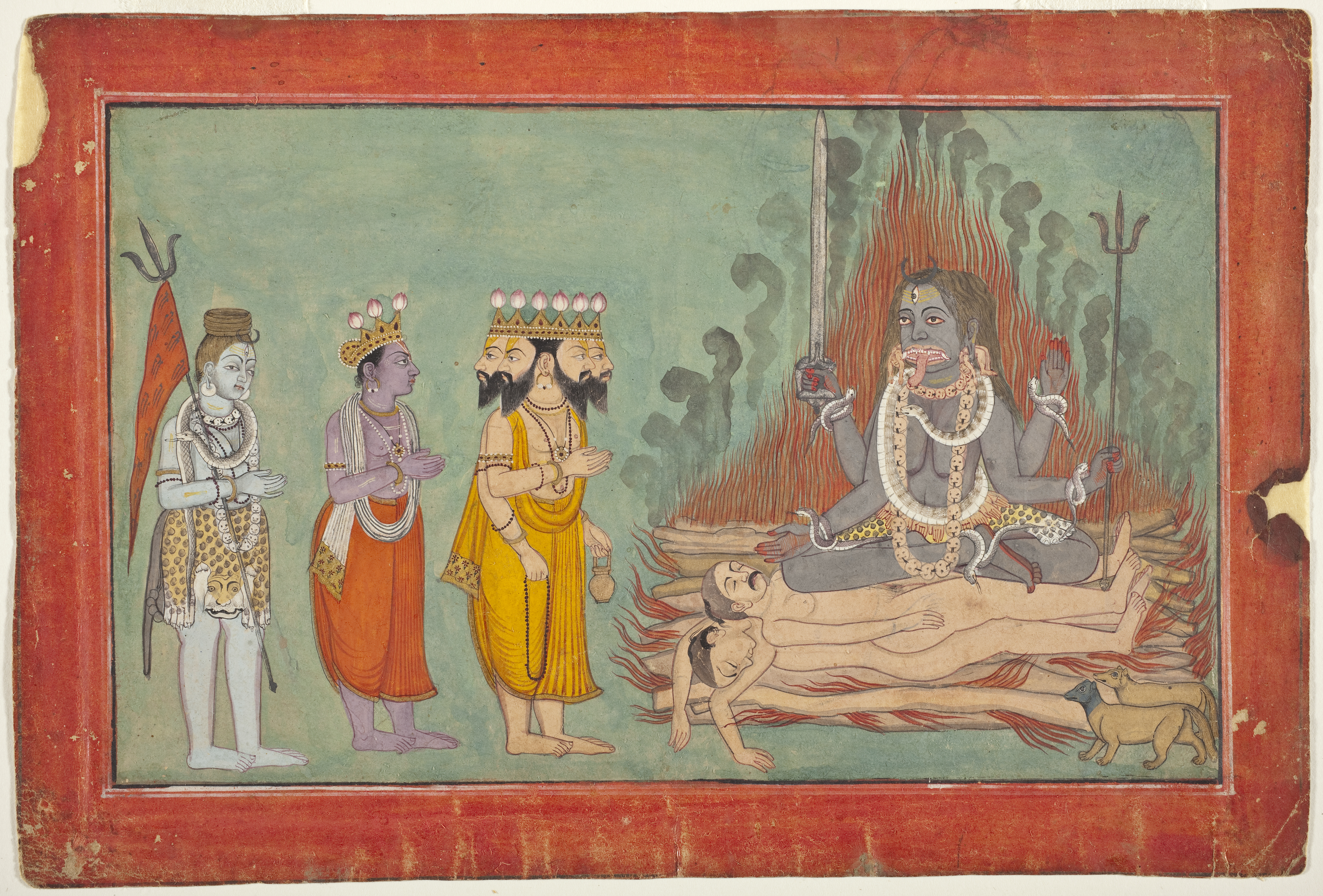 Shiva, Vishnu, and Brahma Adoring Kali, Basohli